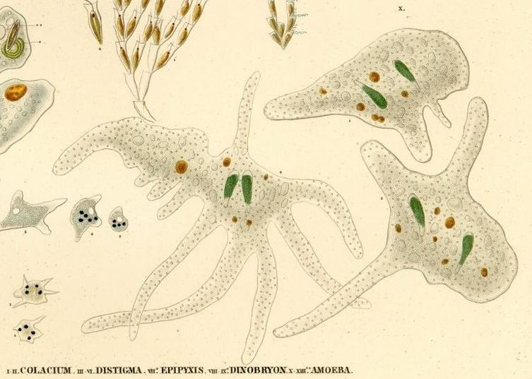 Amoebas from C.G. Ehrenberg's Die Infusionthierchen, 1830